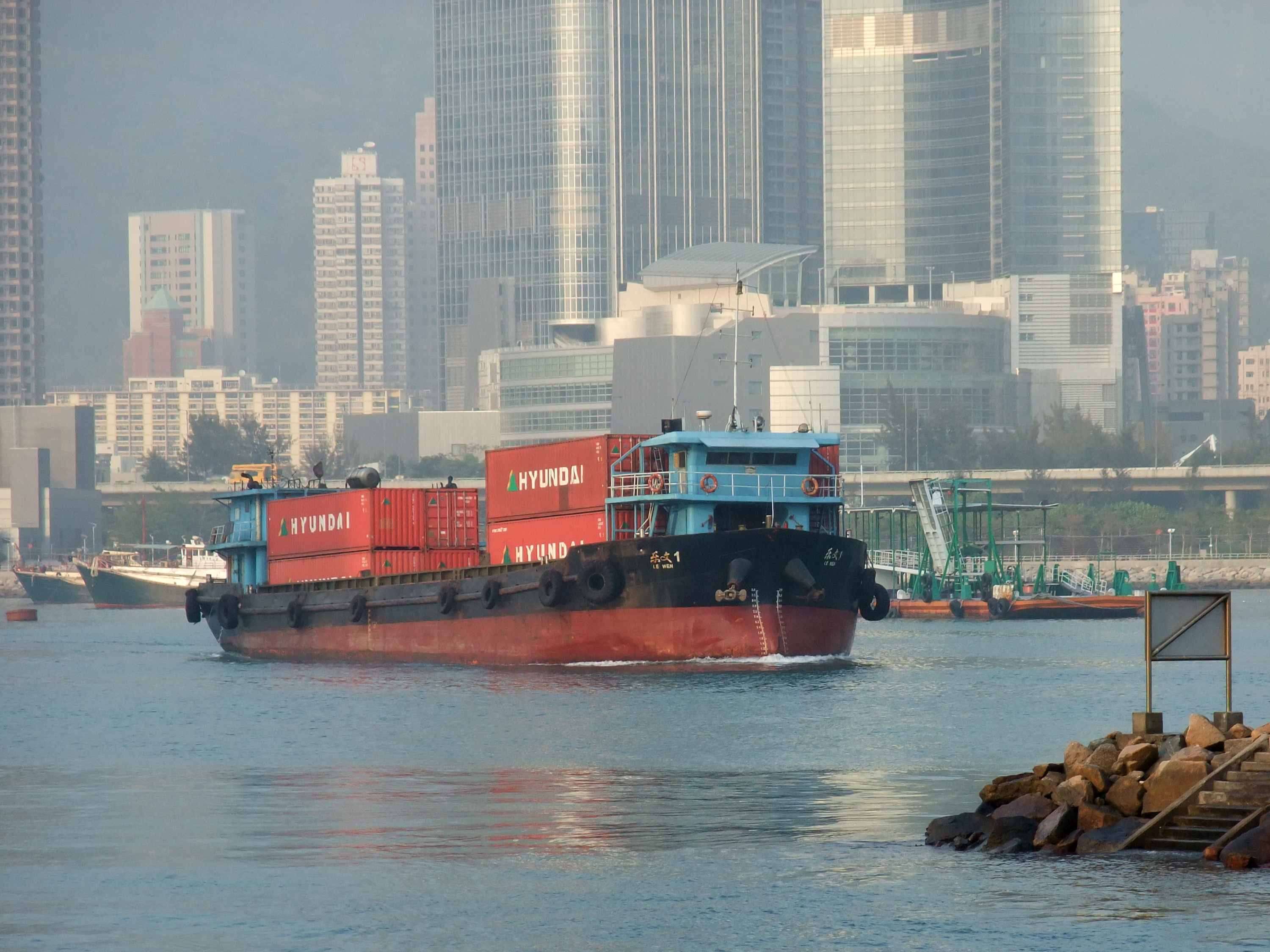 A cargo ship moving through Rambler Channel in Hong Kong.